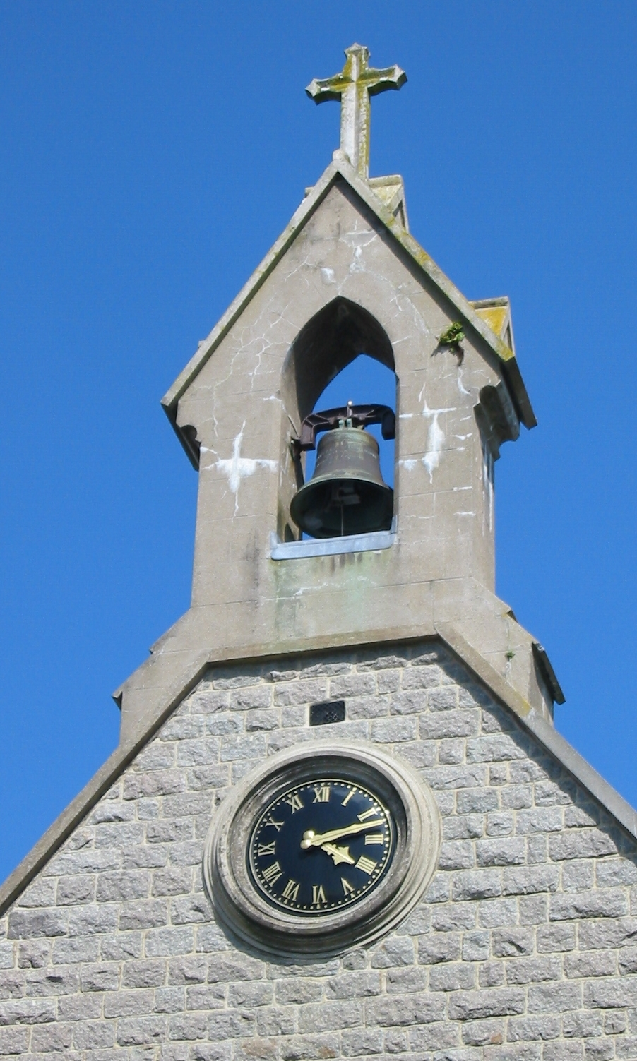 Jersey, 22 June 2009